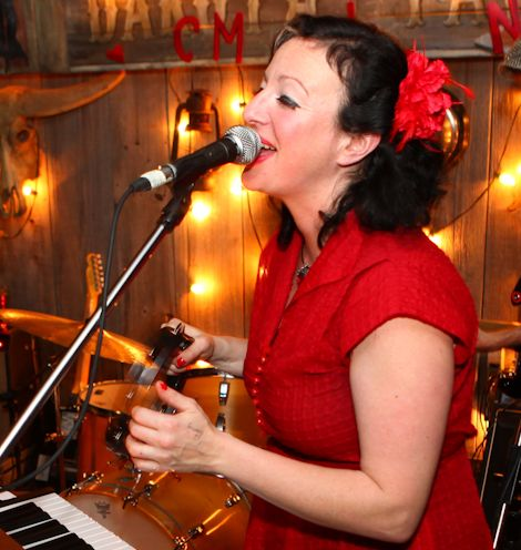 Carolyn Mark performing at the Dakota Tavern, Toronto, Ontario, Canada.